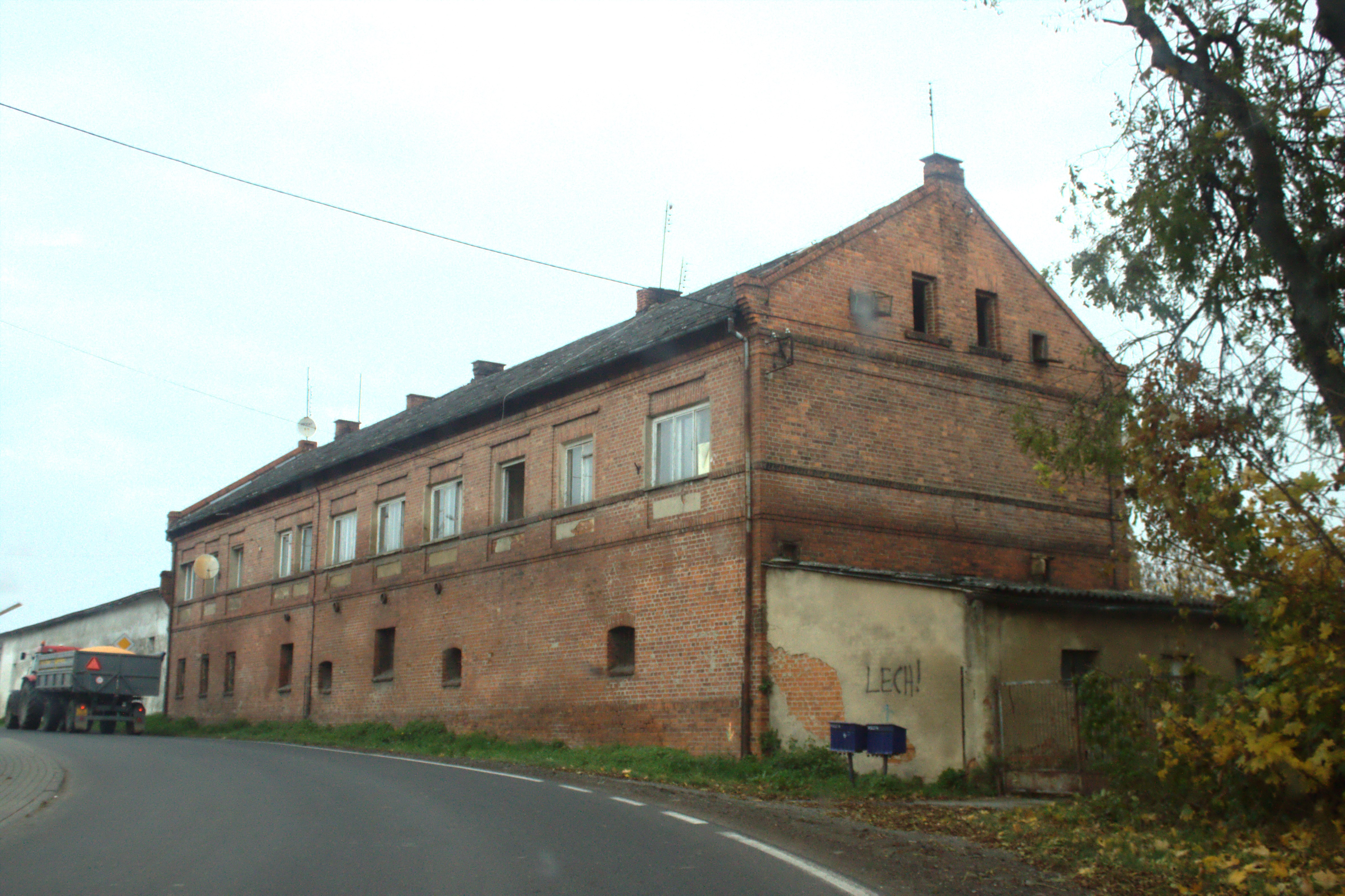 A building in the village of Kornice near Petrowice Wielkie, Poland